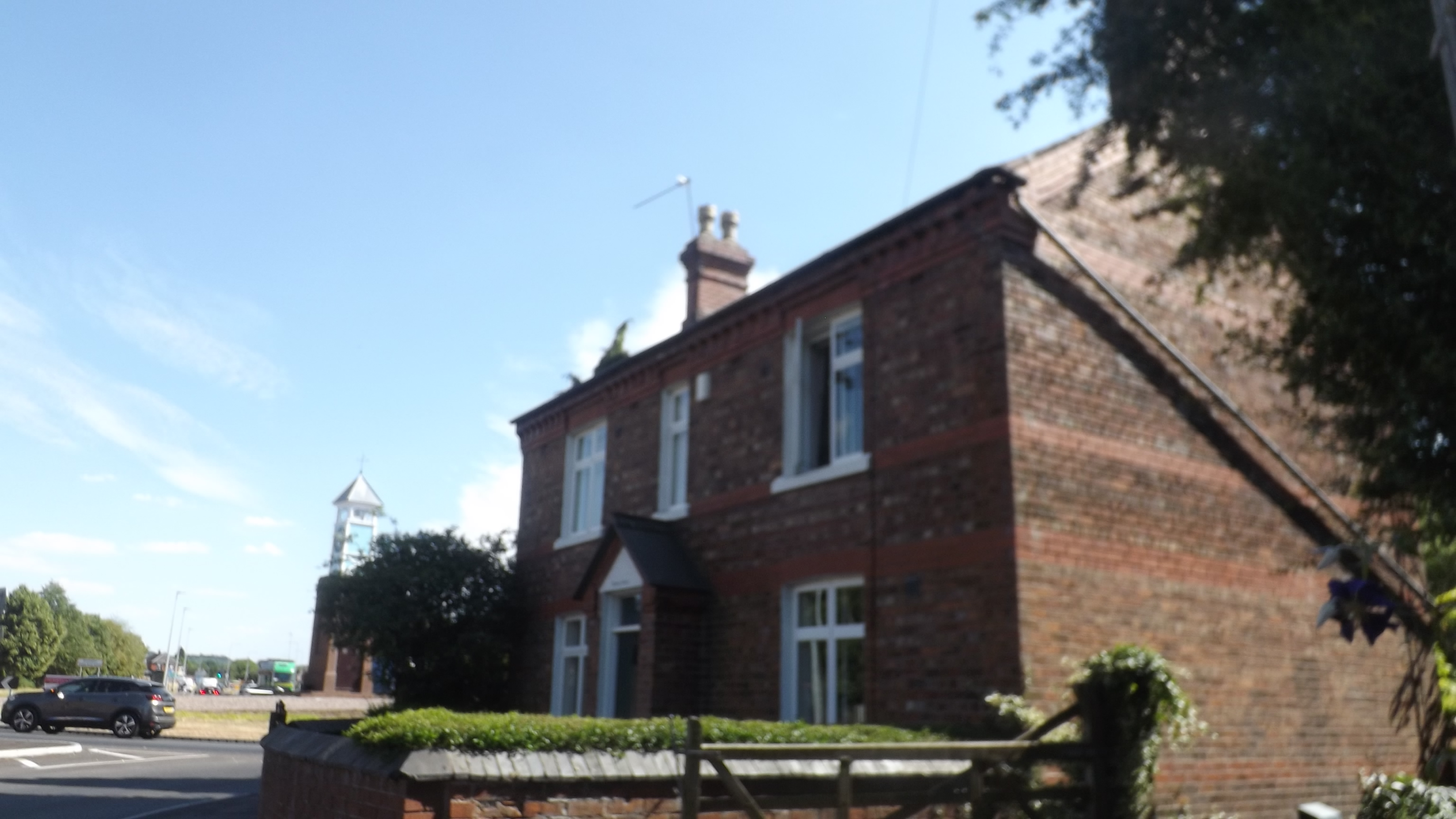 My own.